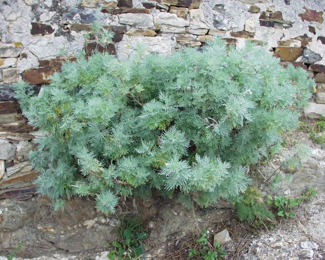 (en) Artemisia arborescens, a photography originating of the internet site The accord of the autor, H. Brisse, is here. (fr) Artemisia arborescens, une photographie issue du site internet L'accord de l'auteur, H. Brisse, se situe ici.